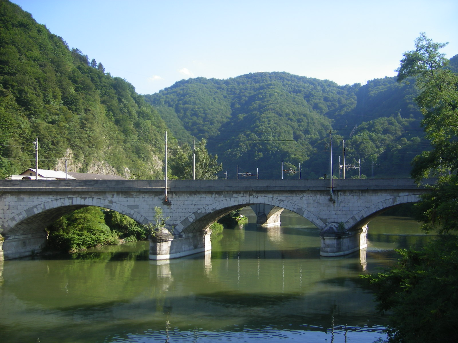 An outflow of the Savinja river into the Sava river at Zidani Most (Laško municipality) and (two) railway bridges.